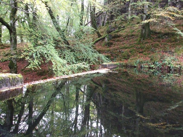 Dam on Ulva The mirror-like waters of the Reservoir on Ulva (on A' Chrannag) are held back by this little dam. Isle of Ulva, Inner Hebrides.